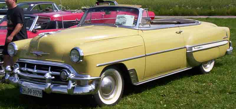 1953 Chevrolet Two-Ten Deluxe Series, Model 2134 Convertible Coupe